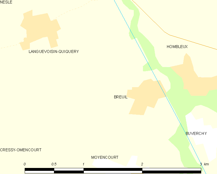 Map of French municipality Breuil